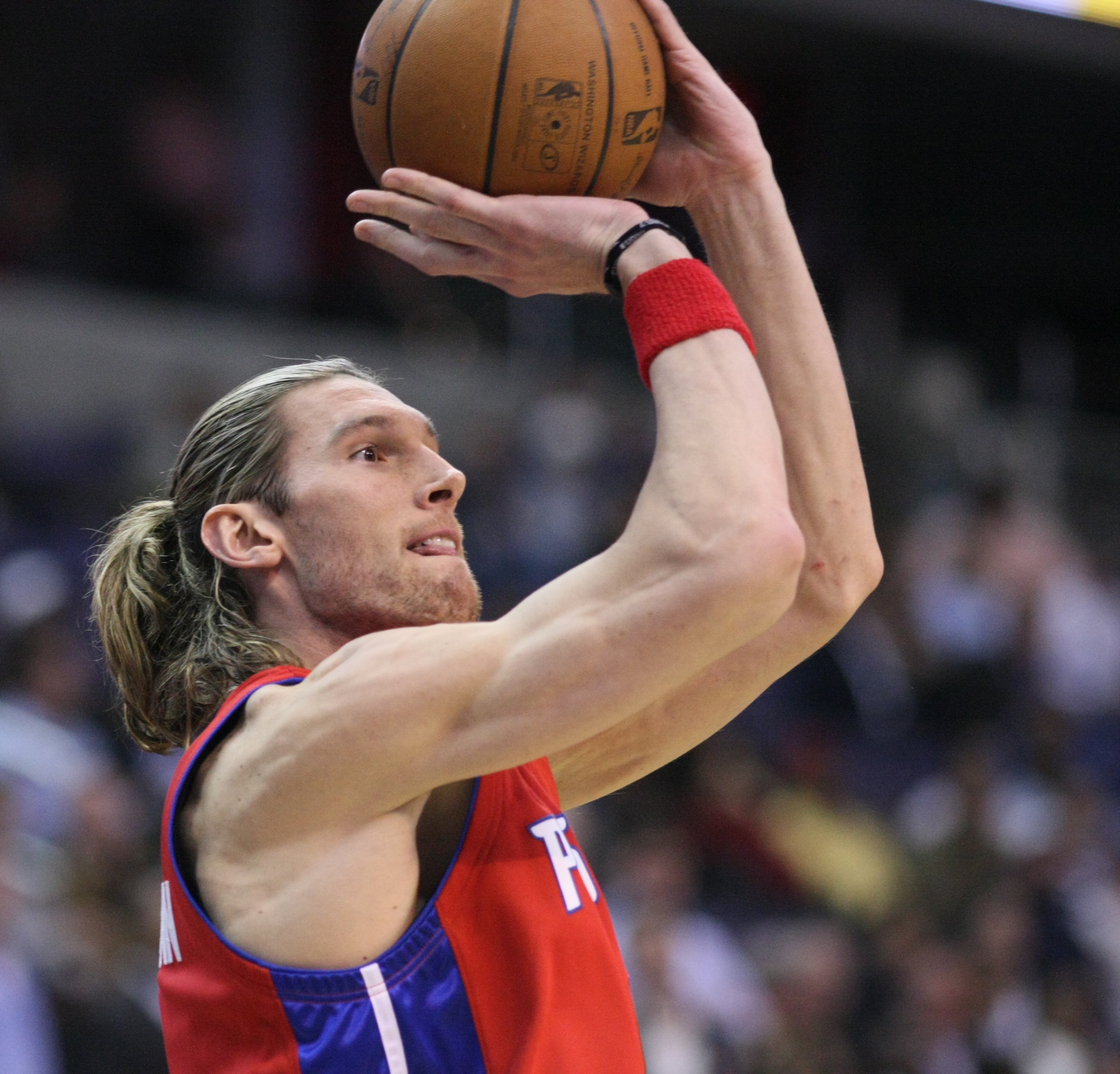 Walter Herrmann, of the National Basketball Association's Detroit Pistons, during a 2008 basketball game against the Washington Wizards.